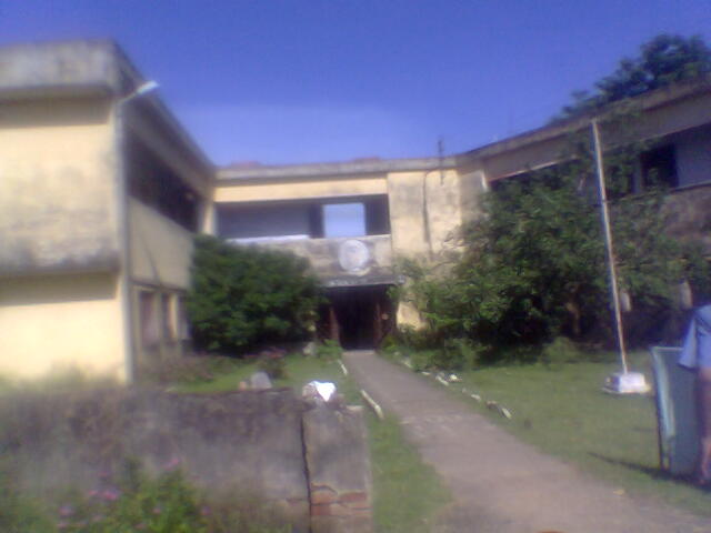 Hostel #3 at Purulia Polytechnic.